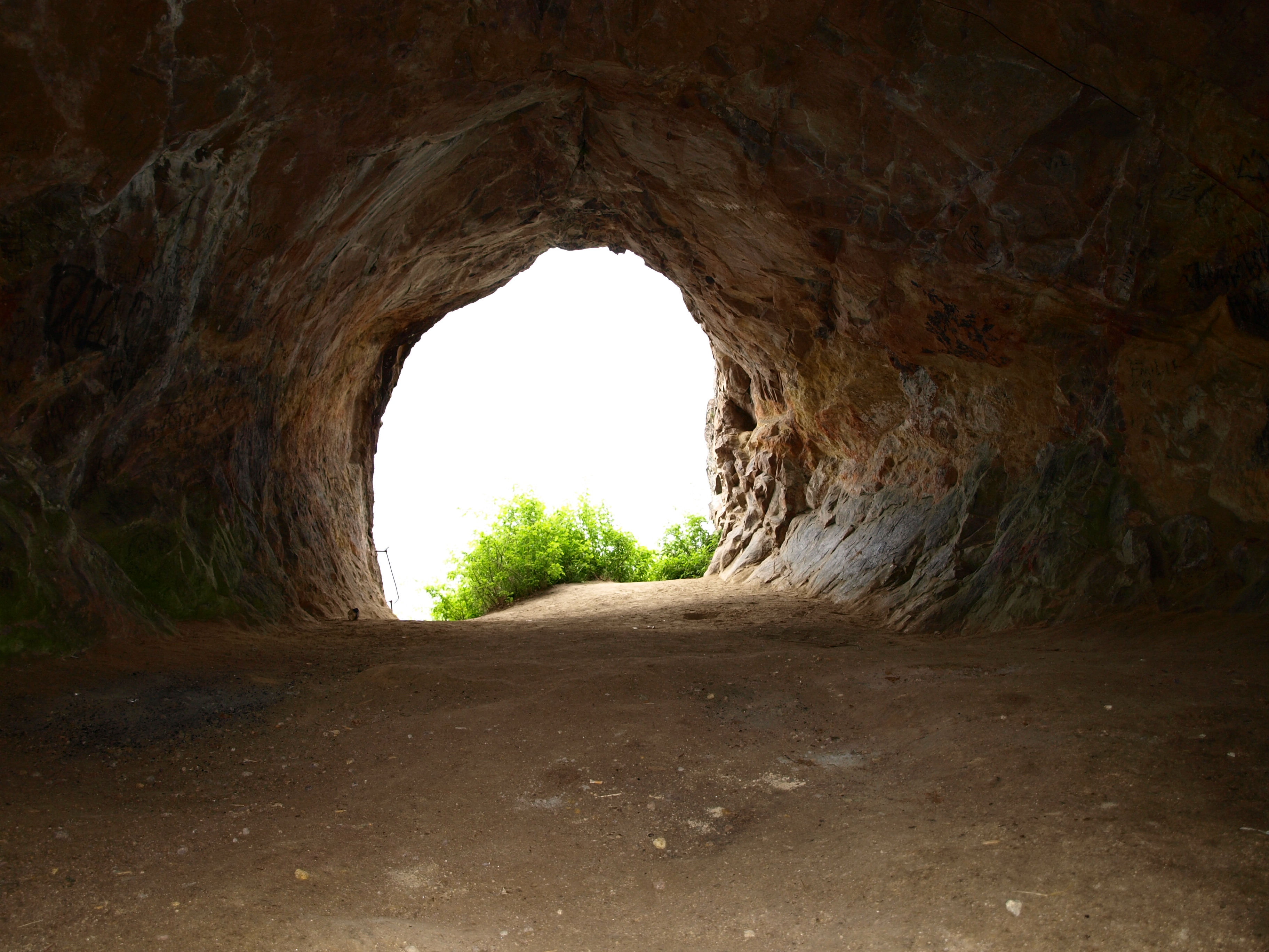 Mikaelshulen, Skien, Norway